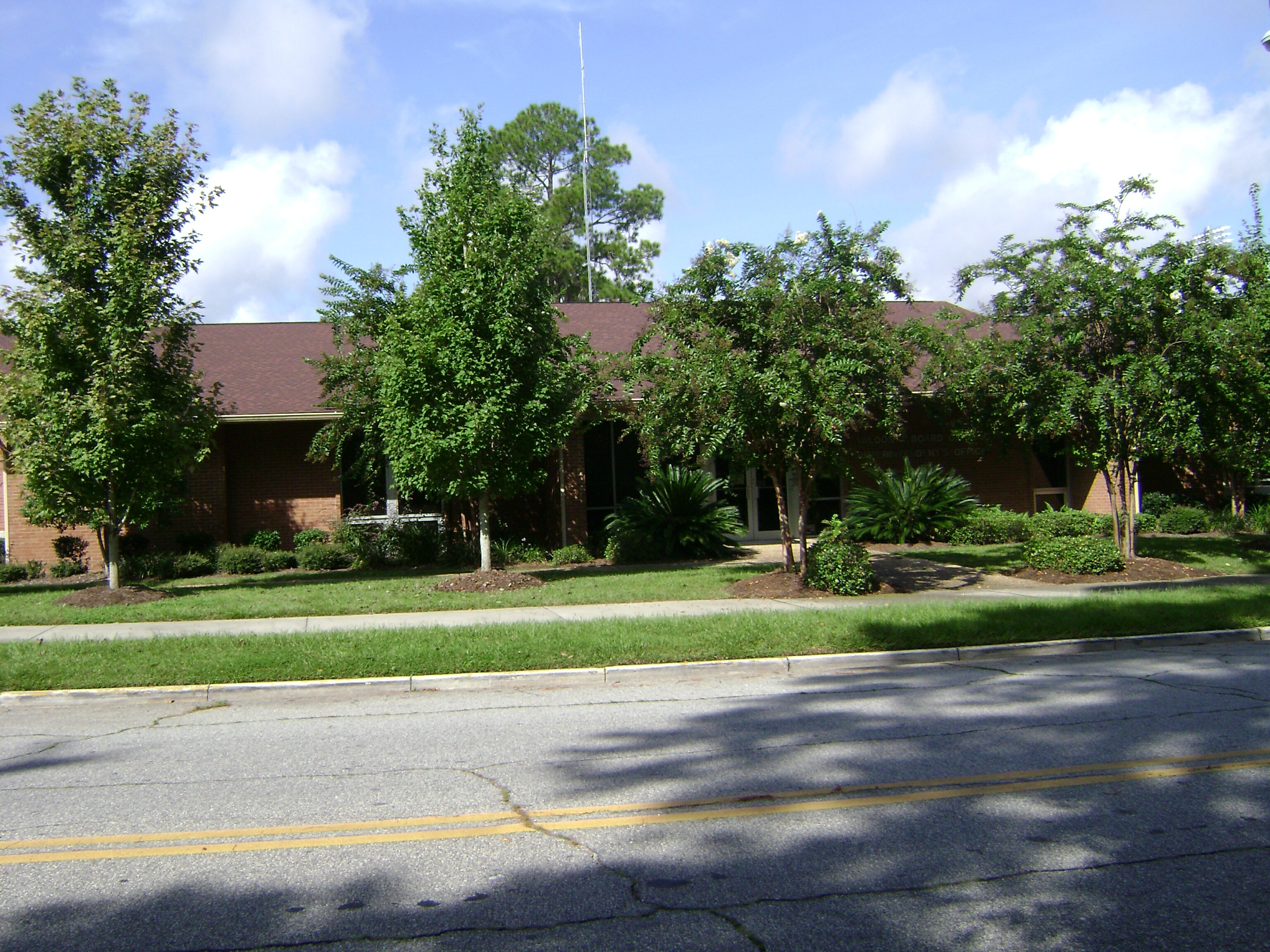 Front of City of Valdosta Schools Board of Education Building in Valdosta, Lowndes County, Georgia. The old high school was in the building where the boe is now. The new high school on forrest st was built and the old school sat empty for some years. Then it was occupied by some specialized school services and then, it burned. Some of the front of the old high school survived the fire and it sat where the new boe building is now. The remainder that survived the fire is still there on the west end of the home stadium stands and houses departments today. After the fire, the remaining front of the old high school was bulldozed and a whole new building was built to house the boe.